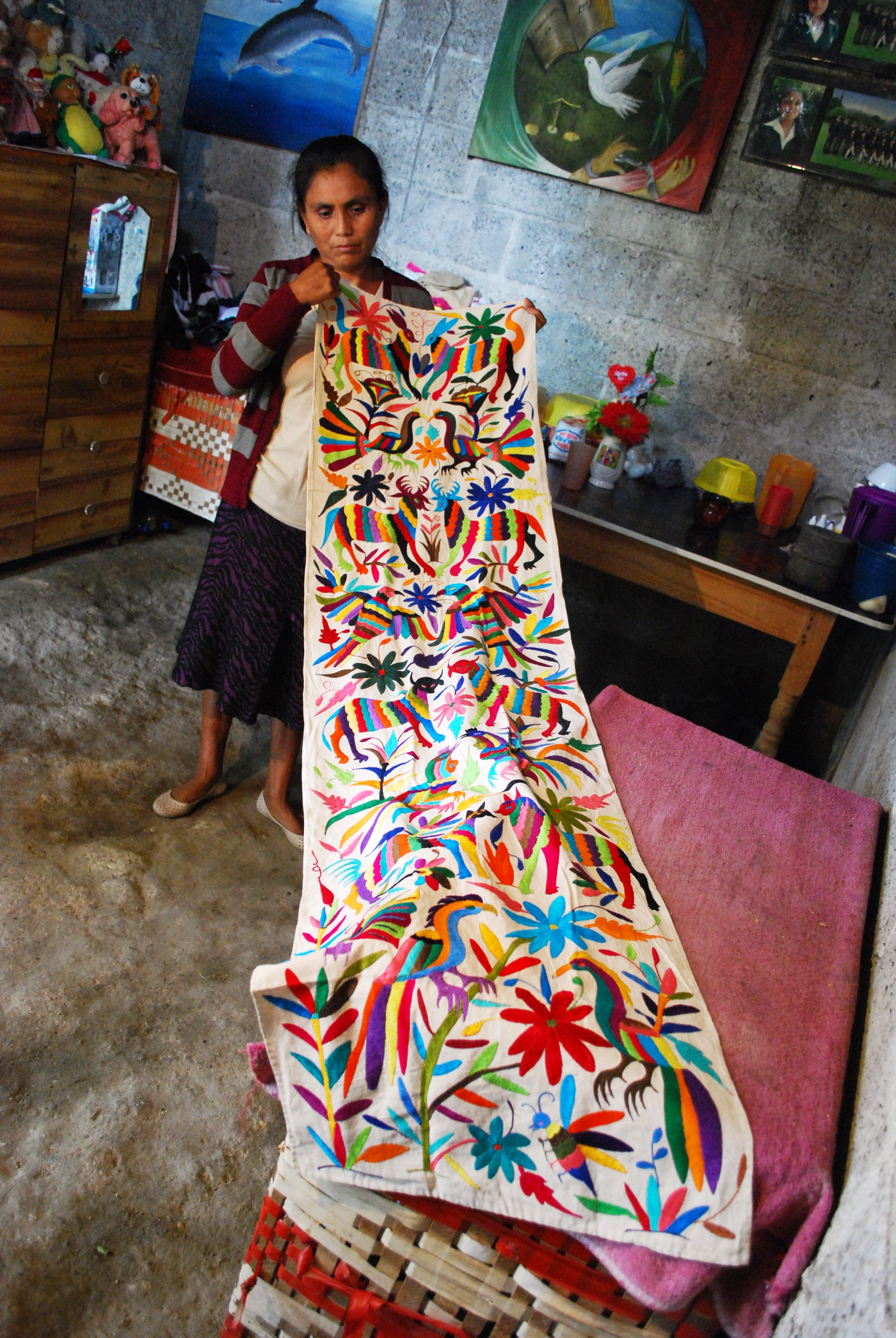 Traditional tenango piece embroidered by artisan Elvira Clemente Gomez at her home in Santa Monica, Tenango de Doria, Hidalgo, Mexico